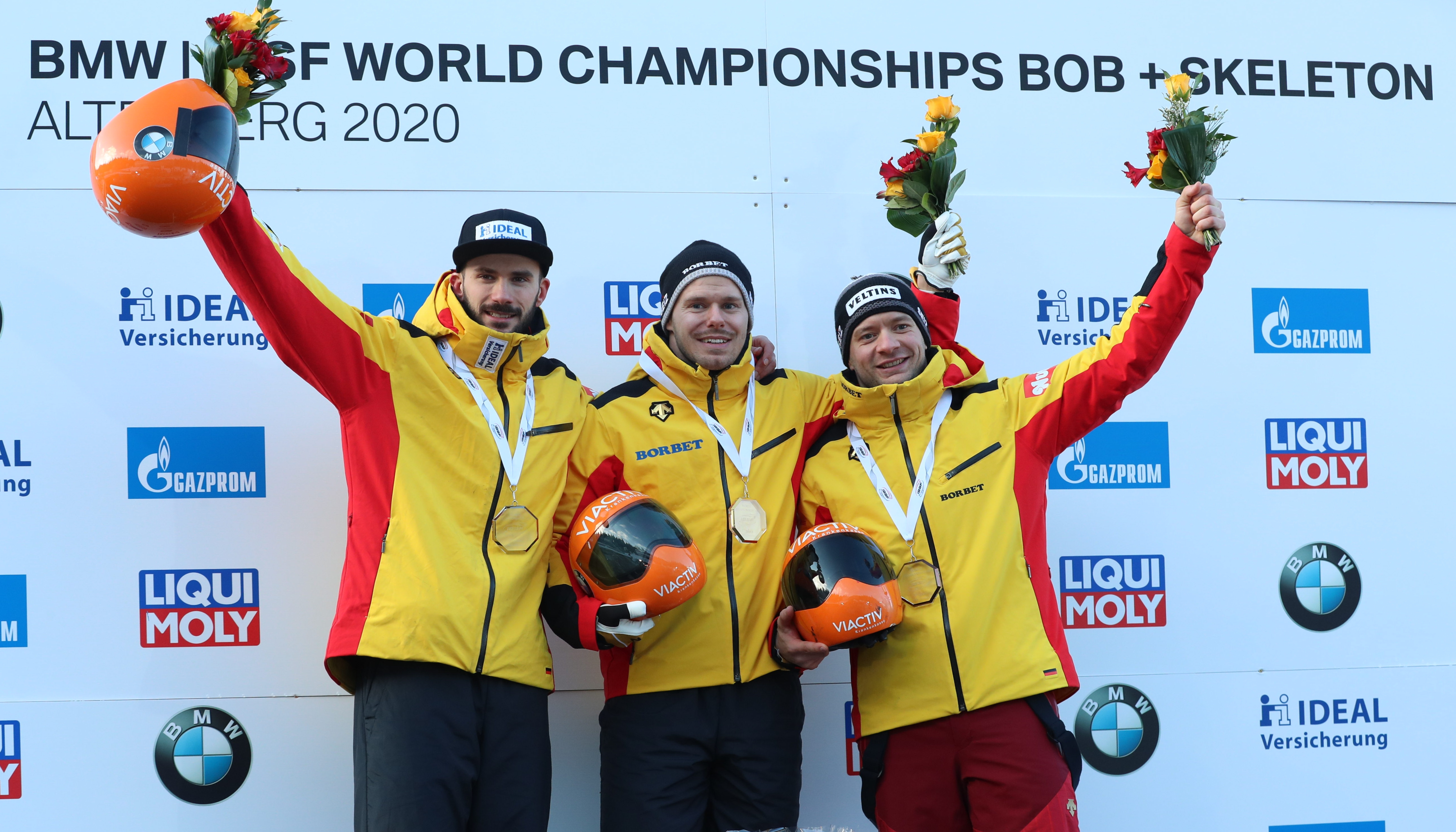 Medal Ceremony at the Men's Skeleton at the Bobsleigh and Skeleton World Championships 2020 in Altenberg